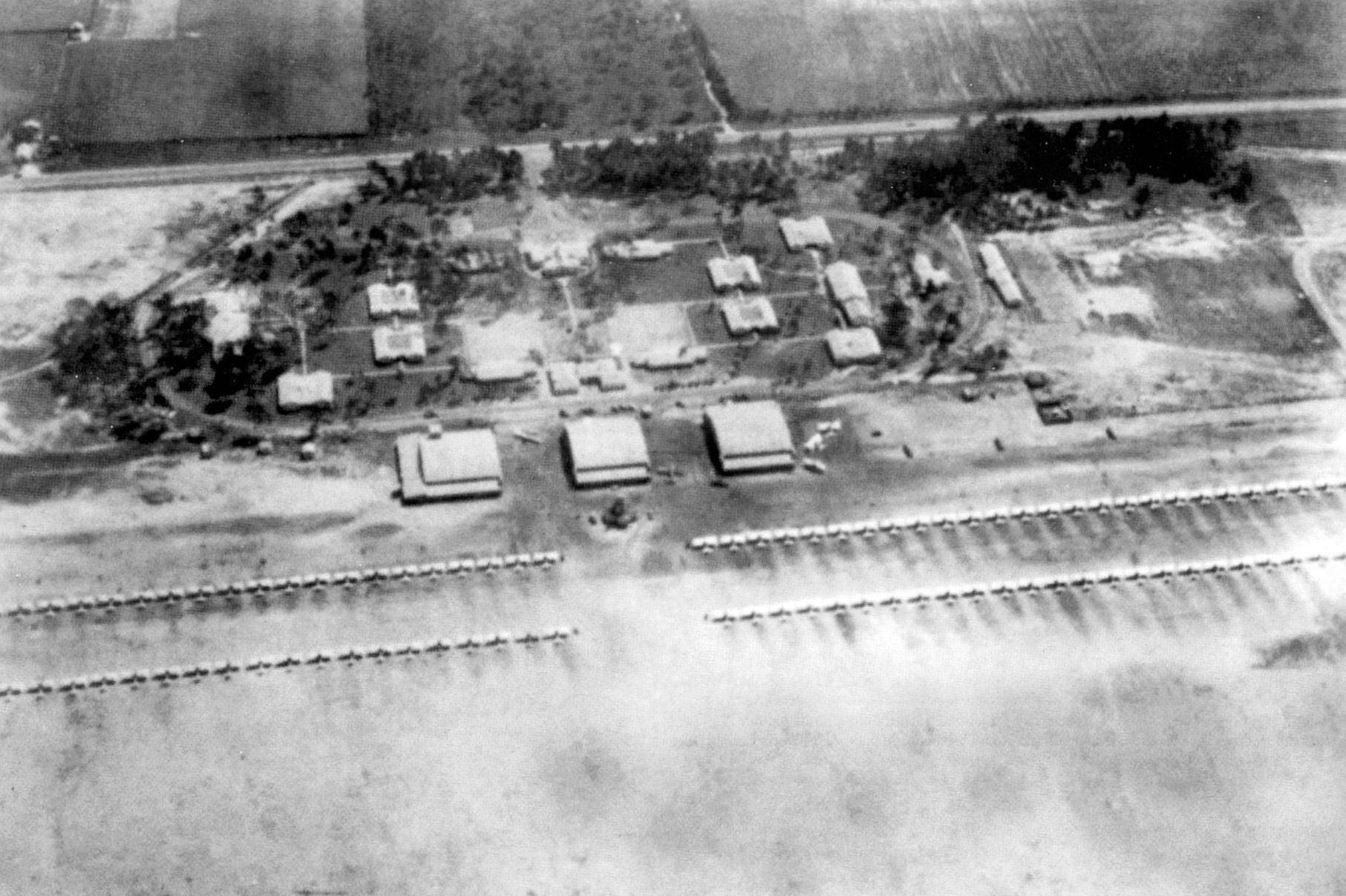 Aircraft and Hangars at Douglas Army Airfield, Georgia, 1943